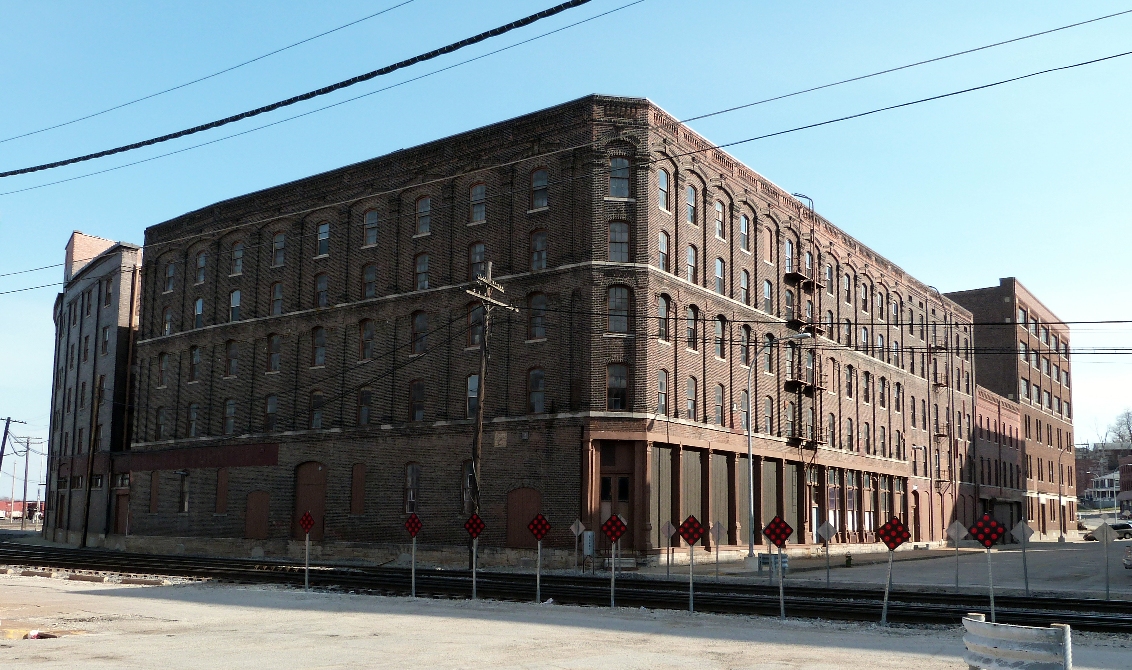 The industrial buildings along the east side of the 100 block of South 3rd Street in Burlington, Iowa, United States, are listed as contributing resources within the Manufacturing and Wholesale Historic District. Left to right: Chittenden & Eastman Company Building H, 107-111 South Main Street, built 1912 Chittenden & Eastman Company Building A, 100-104 South 3rd Street, built 1876 Chittenden & Eastman Company Building B, 108-110 South 3rd Street, built 1886 Chittenden & Eastman Company Building C, 112-116 South 3rd Street, built 1889 Burlington Vinegar and Pickle Works, 118-122 South 3rd Street, built 1881 (later became Chittenden & Eastman Building D) Chittenden & Eastman Company Building R, 124-134 South 3rd Street, built 1923 The historic district is listed on the US National Register of Historic Places.